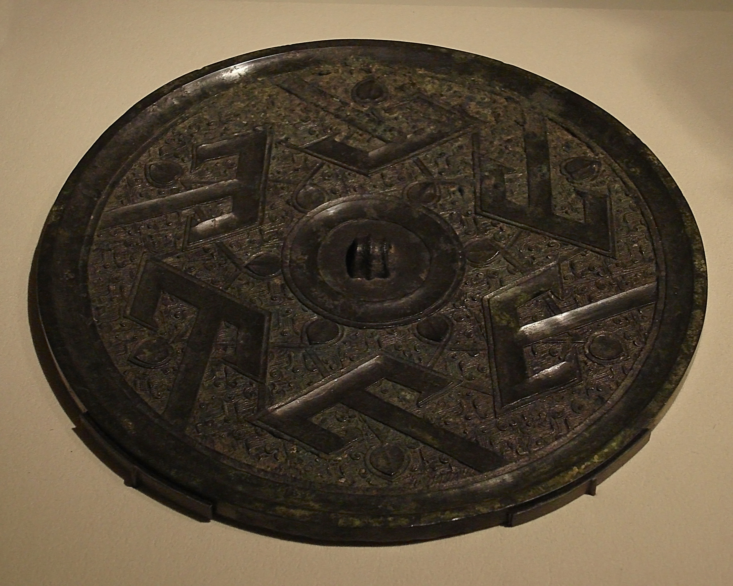 Bronze Mirror. Exhibition "Treasures of China", Canadian Museum of Civilization, 2007. Eastern Zhou Dynasty, Warring States Period (475 - 221 B.C.) This round, polished mirror features a knob on the back for hanging; three rings encircle the knob, along with six characters for "mountain". Between the "mountain" characters, a traditional symbol of stability and tranquility, are patterns of feathers and leaves. Mirrors with three to five such "mountain" characters are common, but a mirror with six is rare.